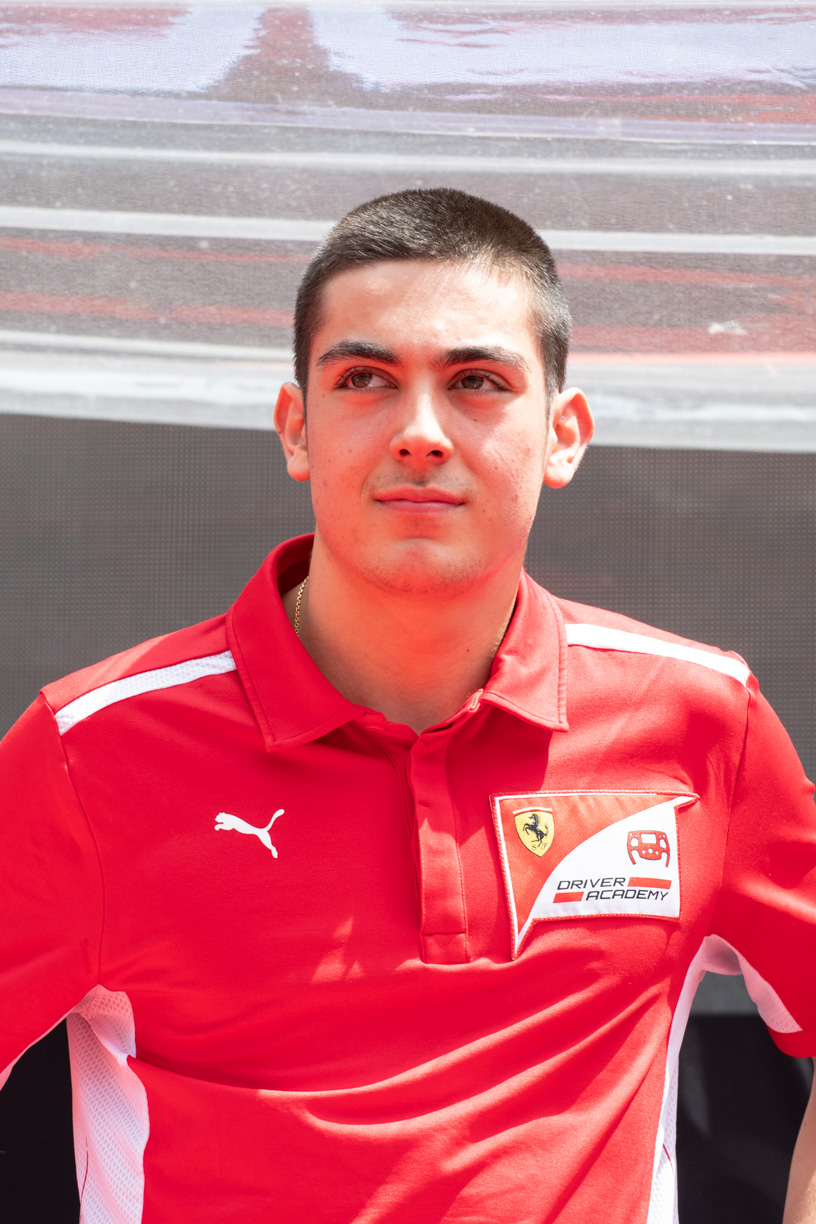 Giuliano Alesi at Spanish GP 2018